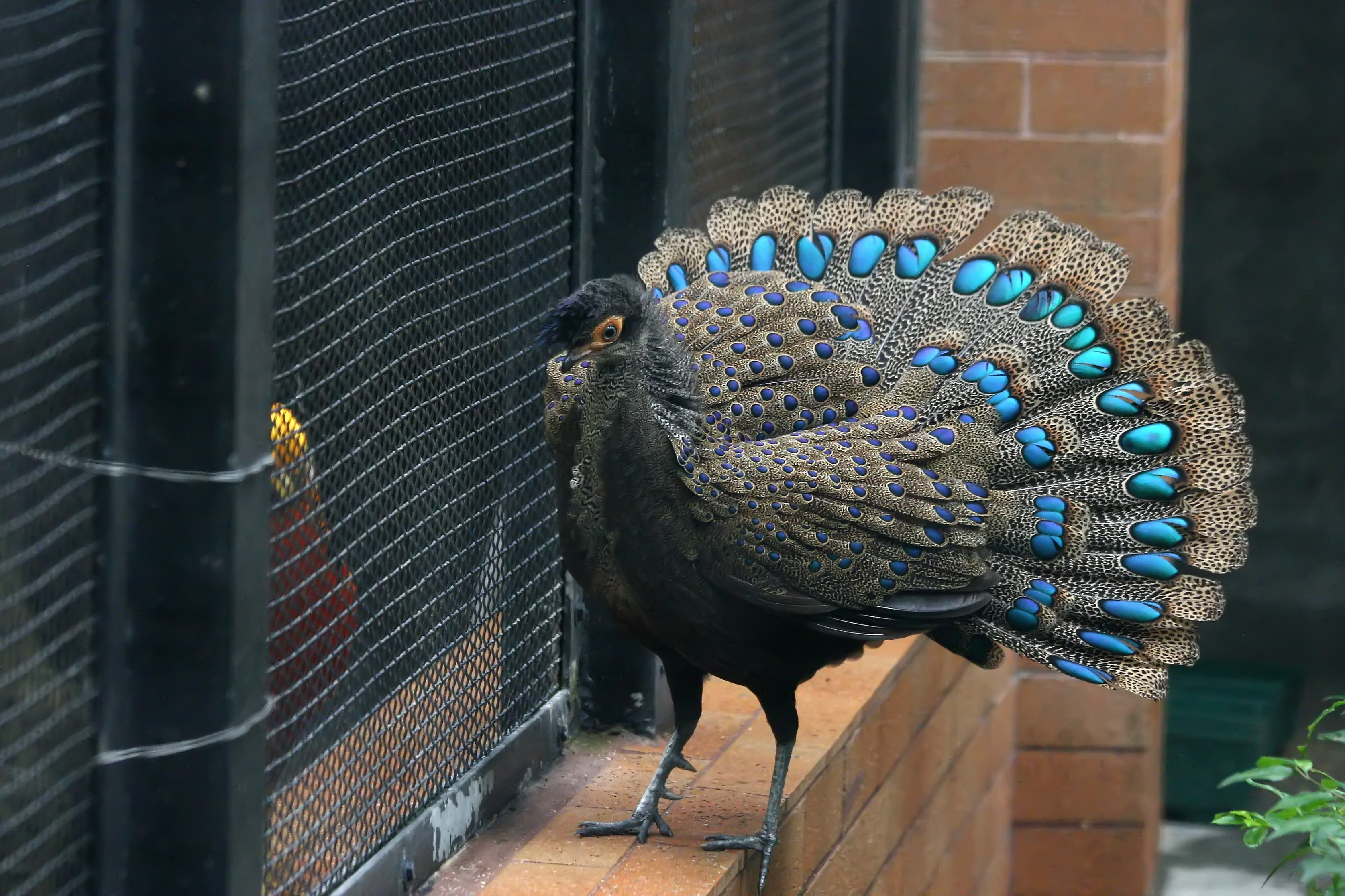 A male Malayan Peacock-Pheasant in captivity.